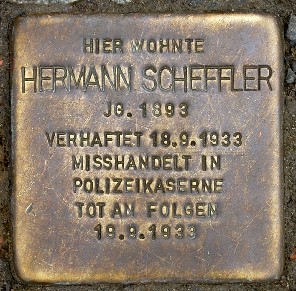 "Stolperstein" (stumbling block), Hermann Scheffler, Demminer Straße 13 Berlin-Gesundbrunnen, Germany